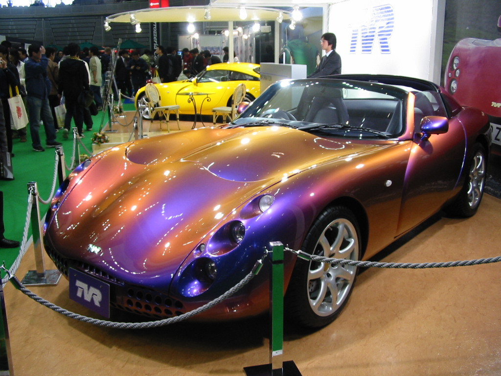 TVR_Tuscan taken in The 37th Tokyo Motor Show